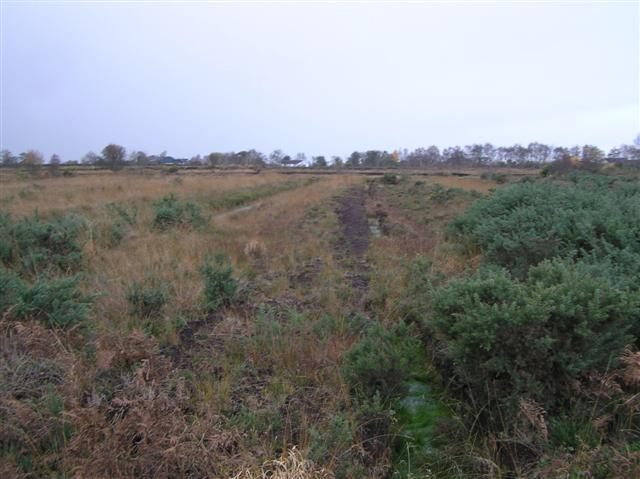 Derryloughan Townland Bogland to the south-west